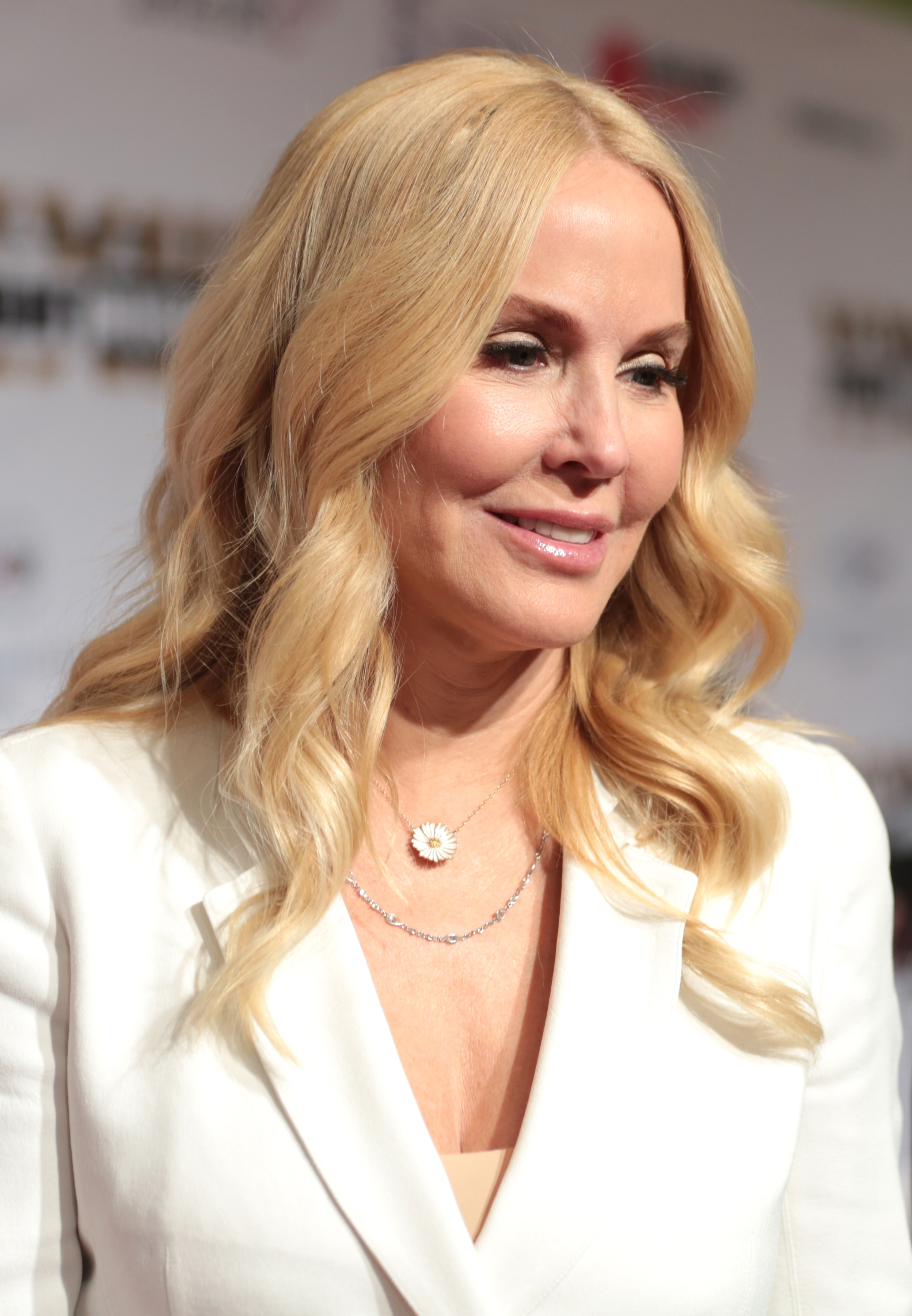 Eloise Broady DeJoria at Celebrity Fight Night XXIII in Phoenix, Arizona.